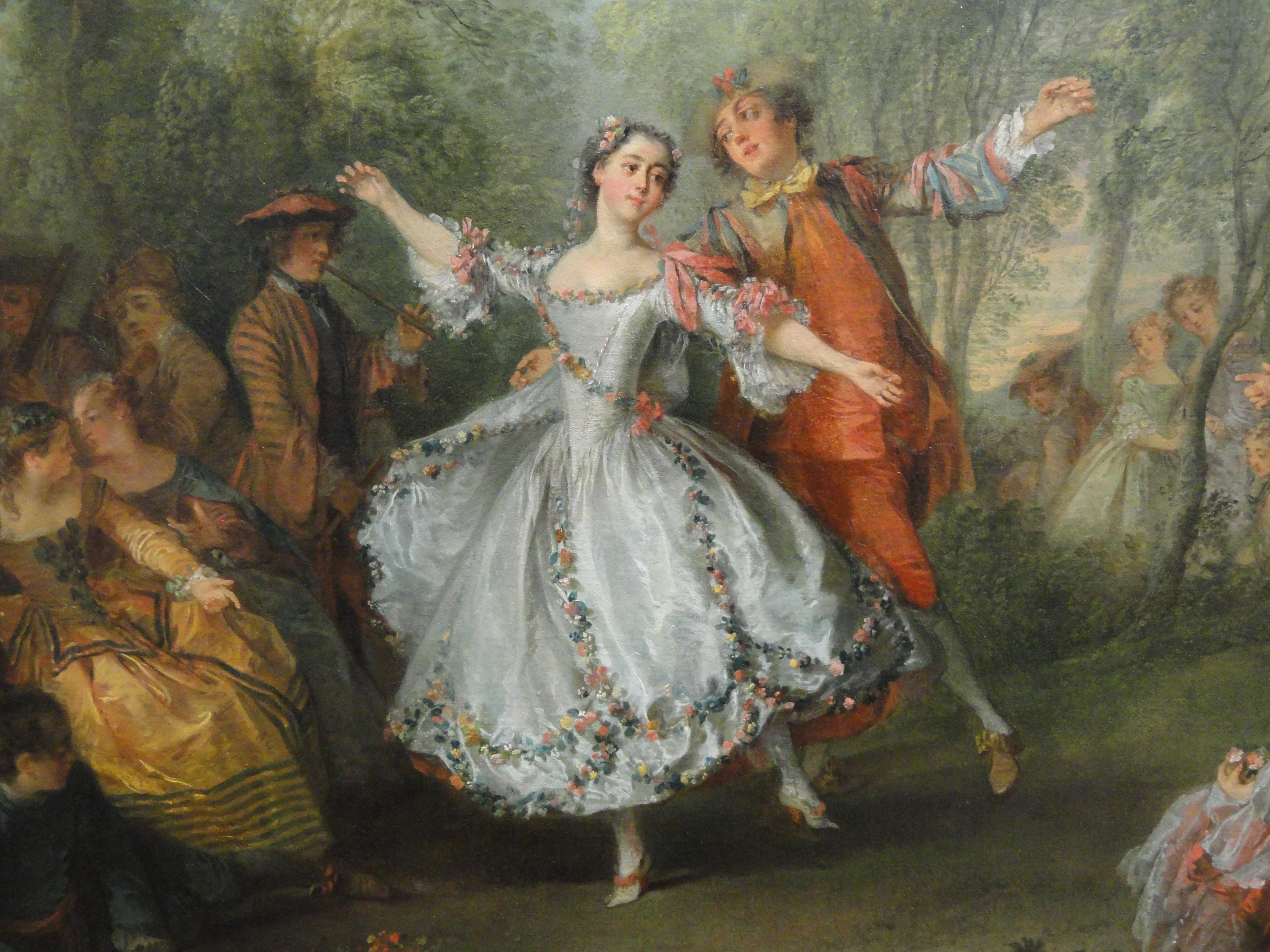 Detail of La Camargo Dancing by Nicolas Lancret, c. 1730, oil on canvas - National Gallery of Art, Washington, DC, USA. This painting is in the public domain because the artist died more than 70 years ago.